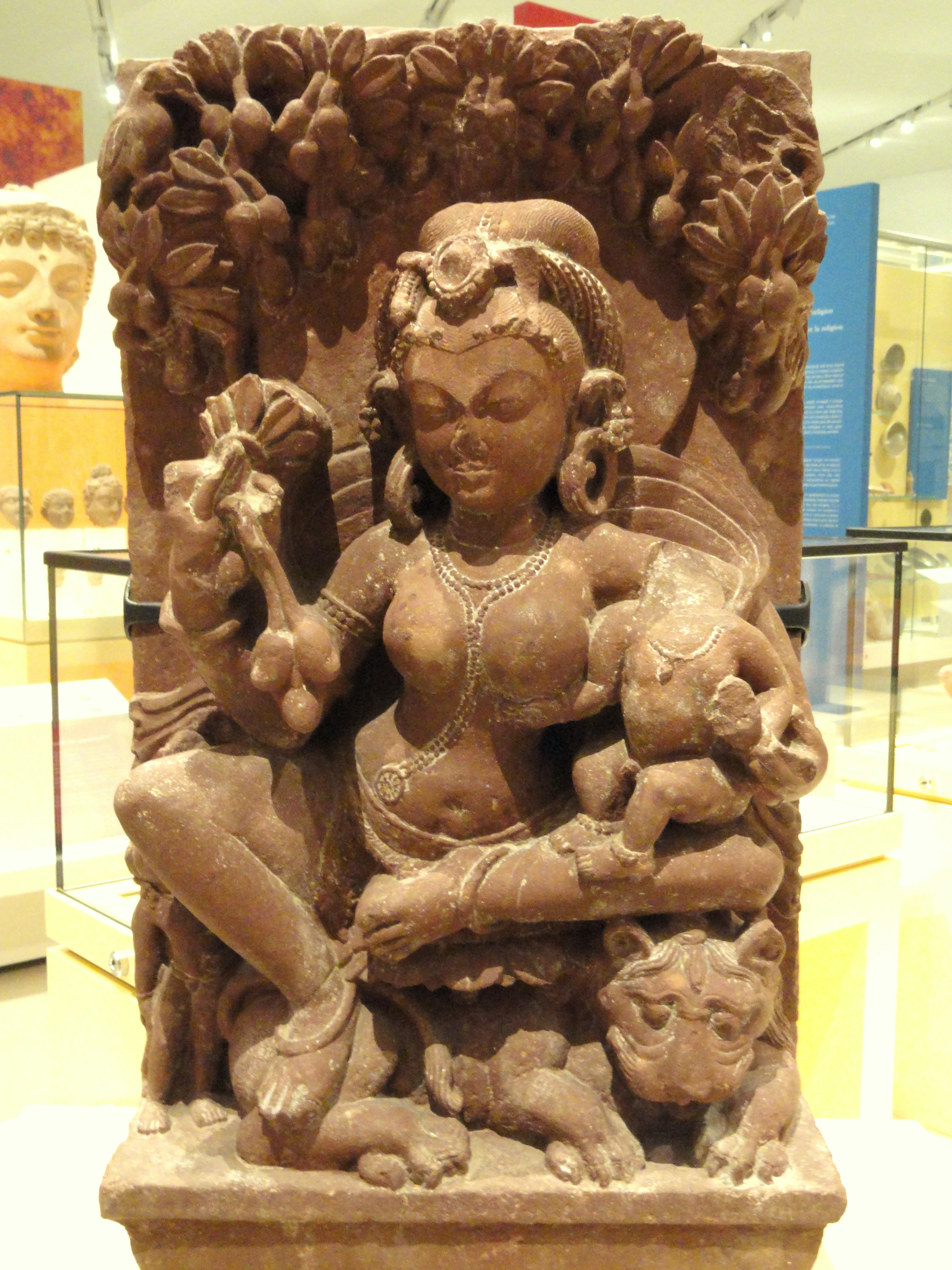 Exhibit in the Royal Ontario Museum, Toronto, Ontario, Canada. This exhibit is old enough so that it is in the public domain, and photography was permitted in the museum. I took this photograph and release it into the public domain.